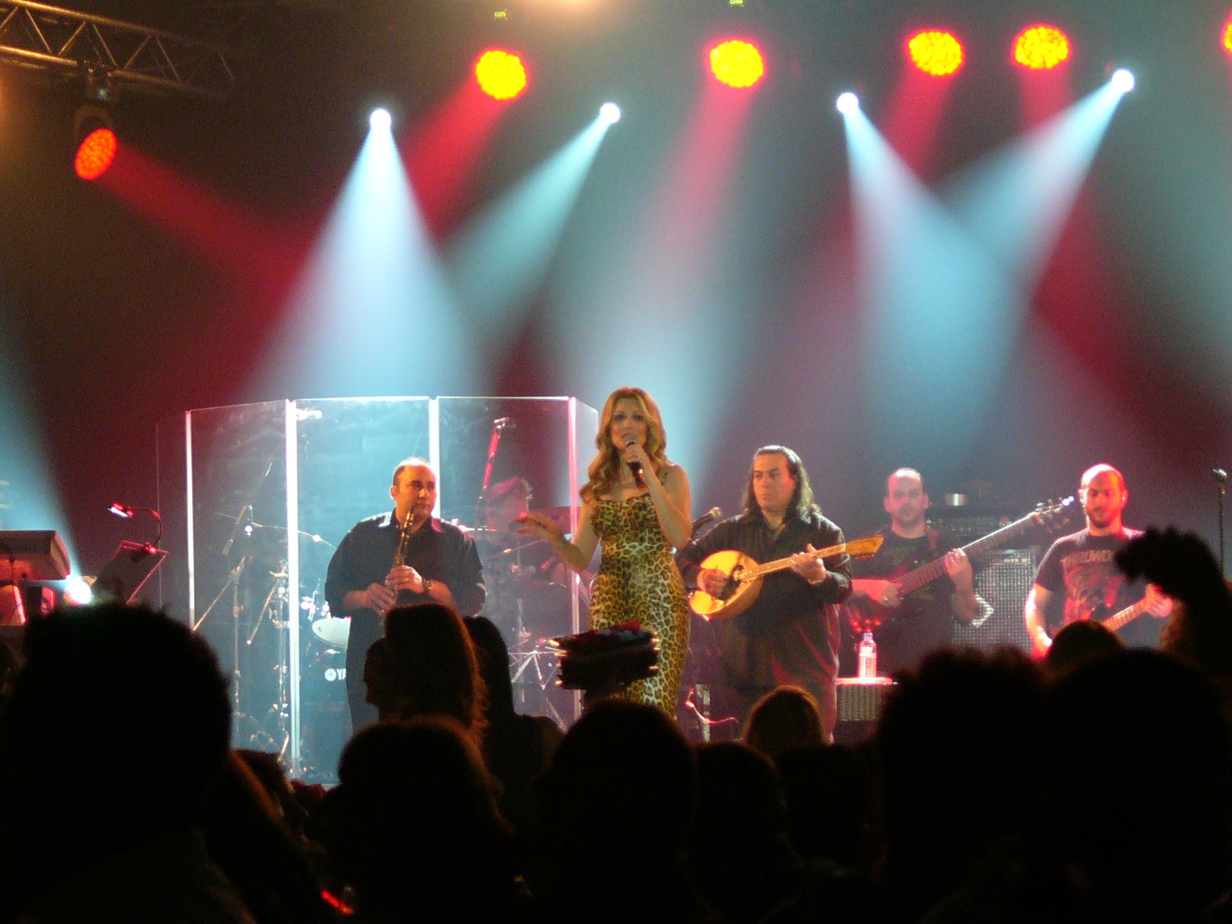 Natassa Theodoridou, Nürnberg 20. May 2013